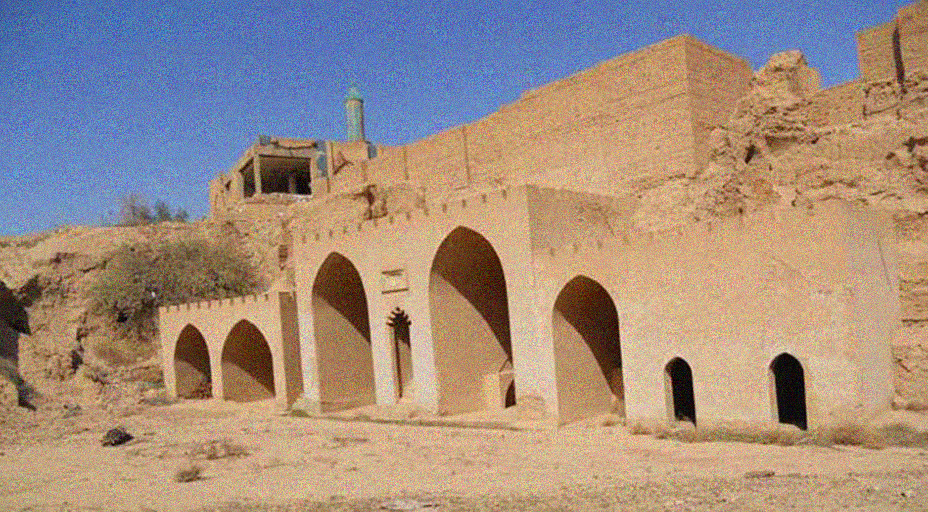 tikrit